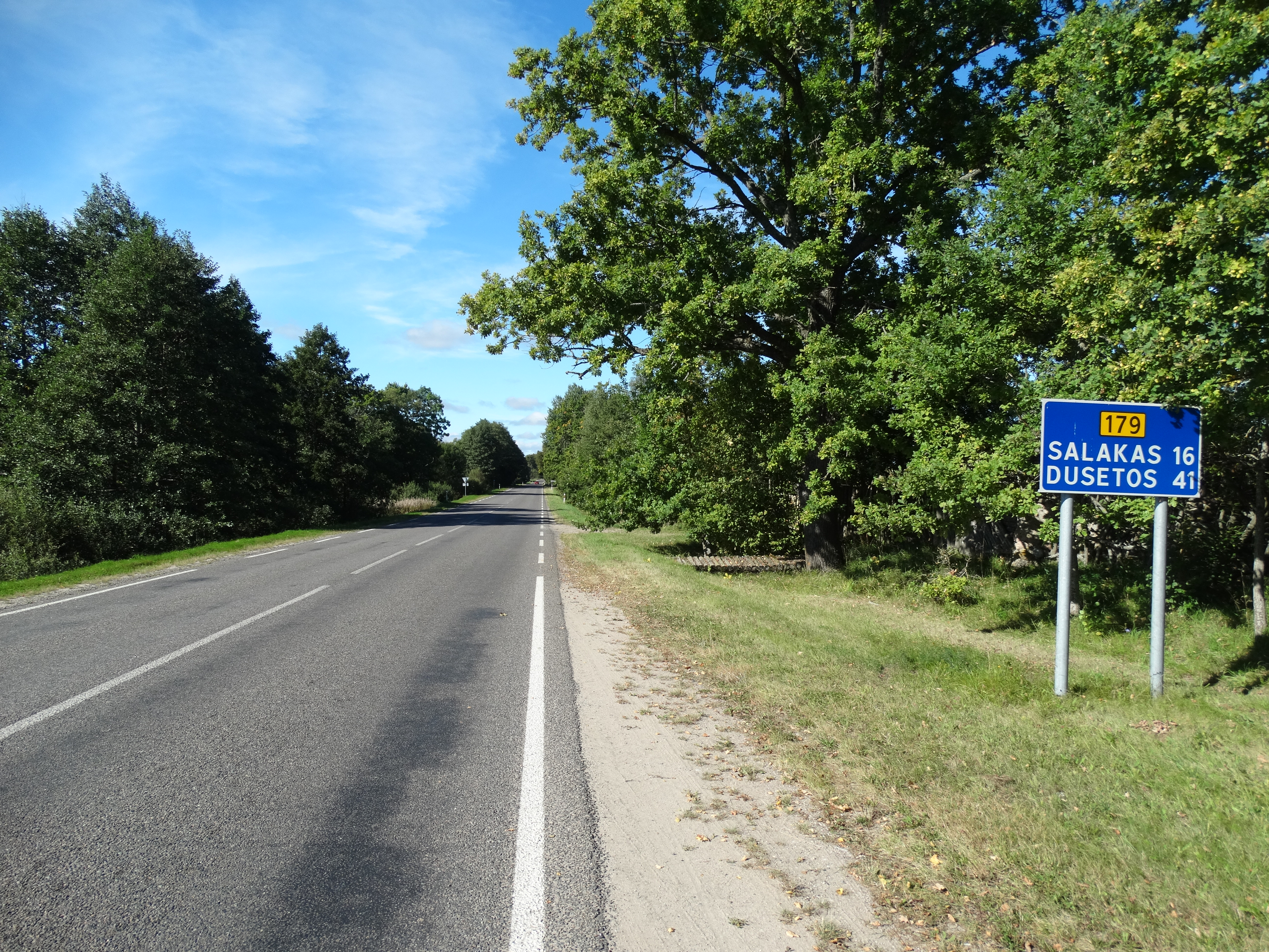 Road 179, by Dūkšteliai, Ignalina District, Lithuania